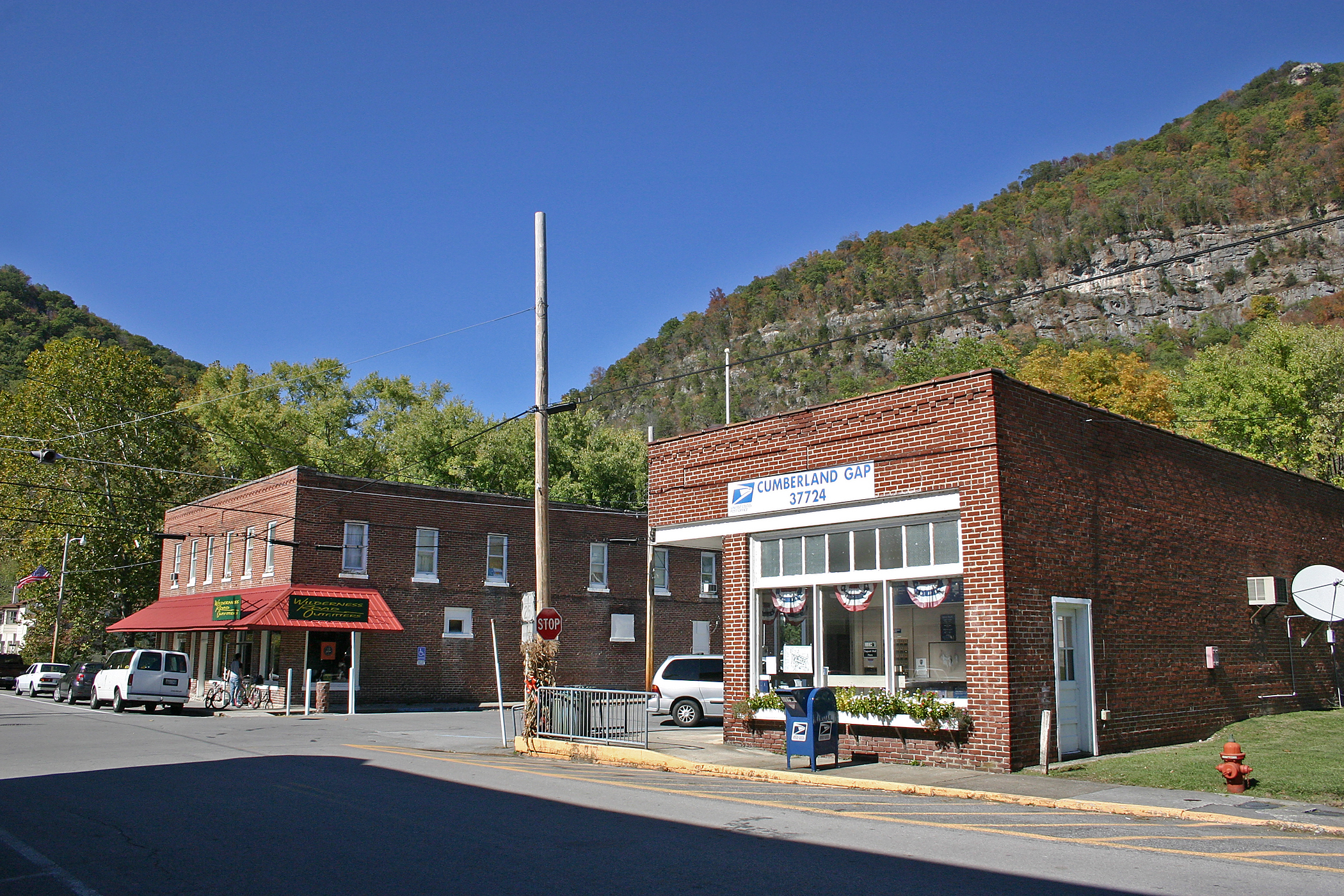 Scope and content: The original finding aid described this photograph as: Original Caption: In a little Tennessee town on the East Tennessee Crossing, one-story brick buildings with square facades extend from right to left with the street in foreground. Pinnacle Rock in the Great Smoky Mountains National Park rises behind the buildings in full sunlight on this bright summer day. Location: Cumberland Gap, Tennessee (36.599° N 83.668° W) Status: Public domain. Photo by Ann Cason